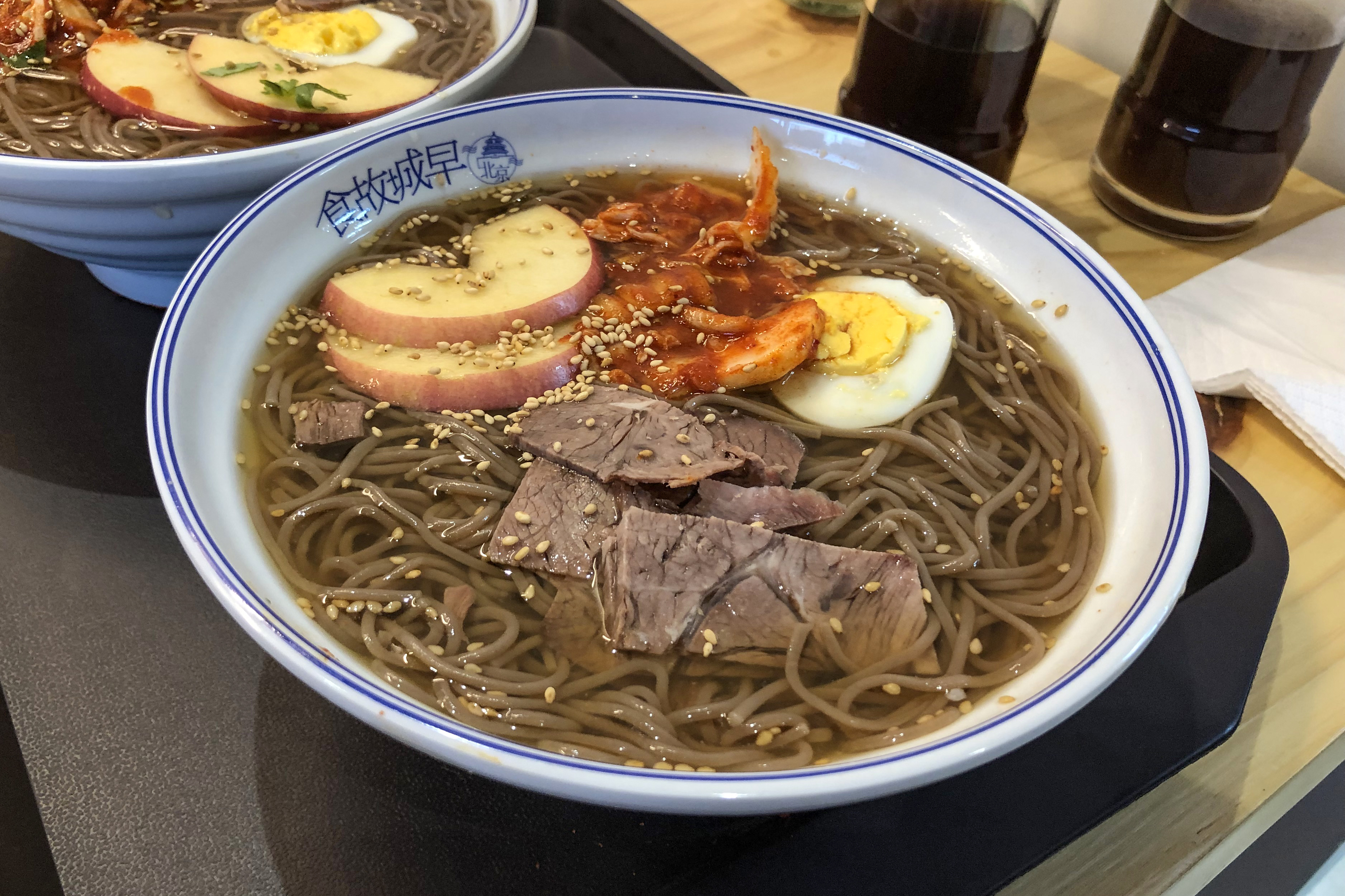 Yanji cold noodles, a treat in summer.